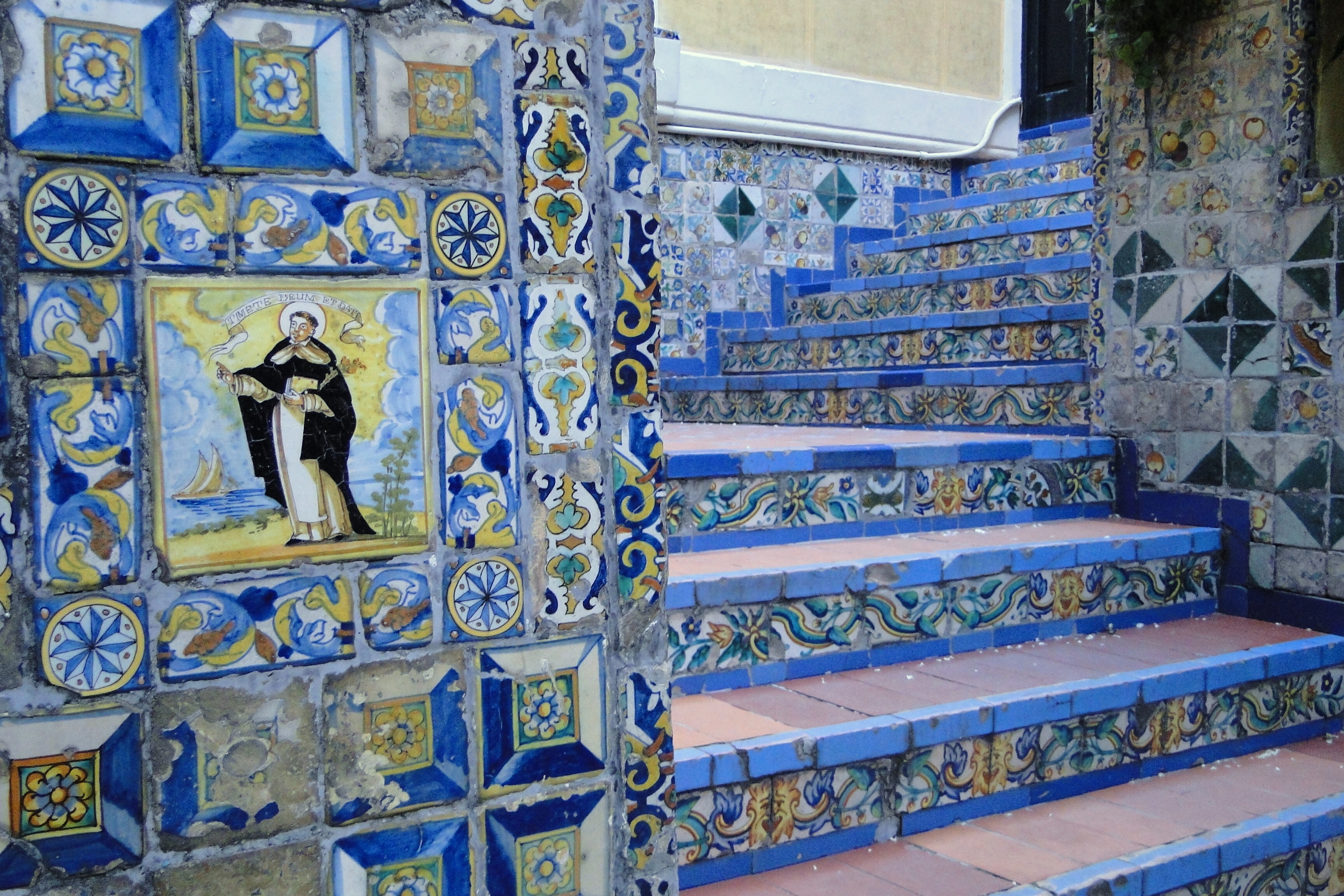 Tilework and Stairs in Garden of Museo Sorolla - Madrid - Spain